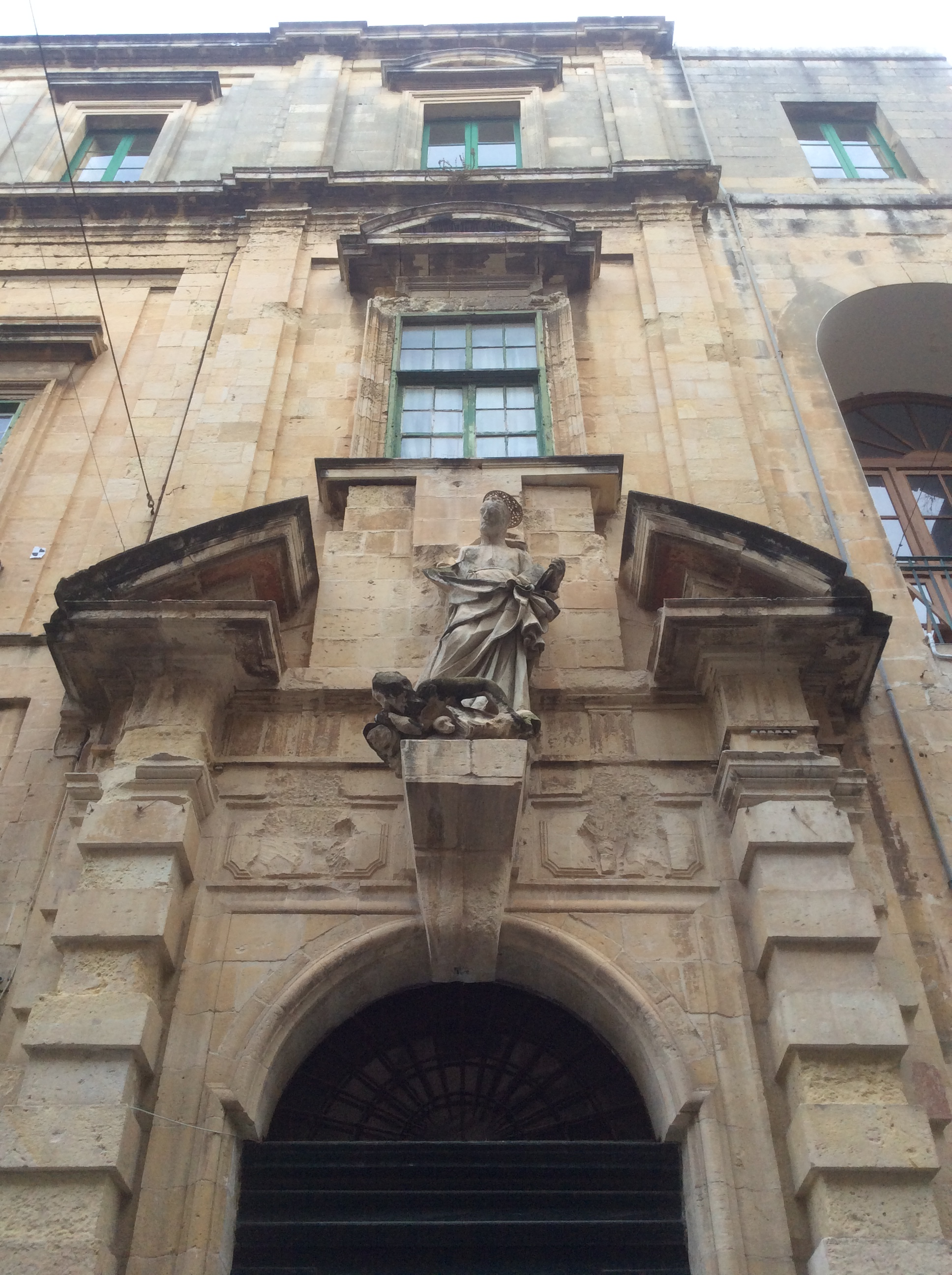 Valletta